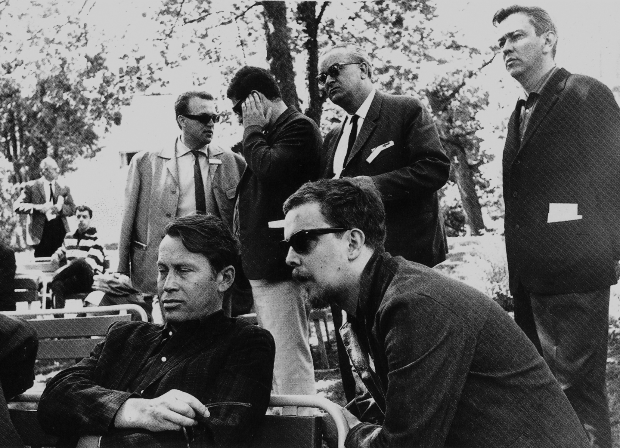 Photograph of the American poets Richard Wilbur and Anselm Hollo at Lahti International Writers’ Reunion, June 1964.